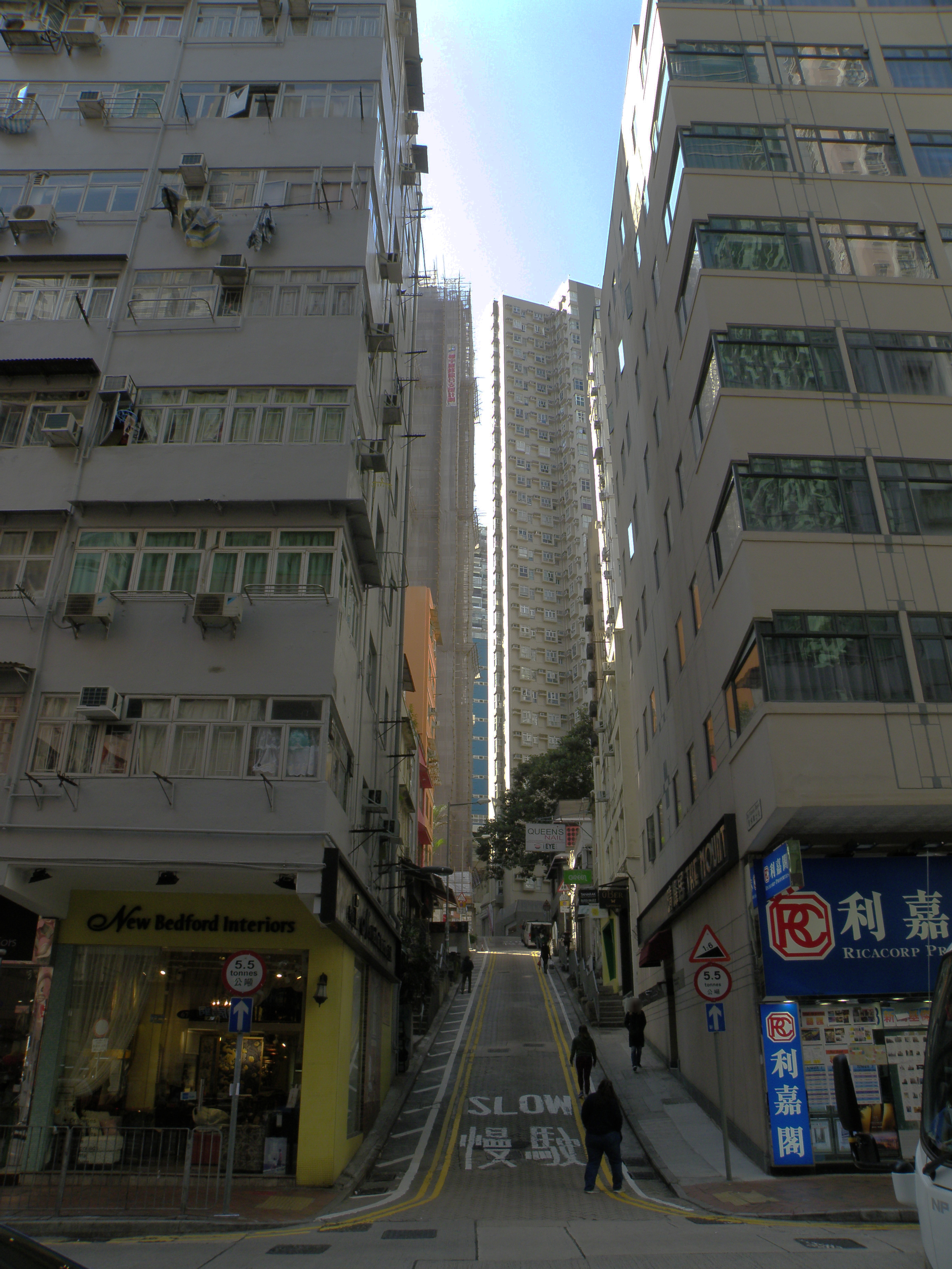 St. Francis Street in Wan Chai, Hong Kong. View of the northern end of the street, at its intersection with Queen's Road East.